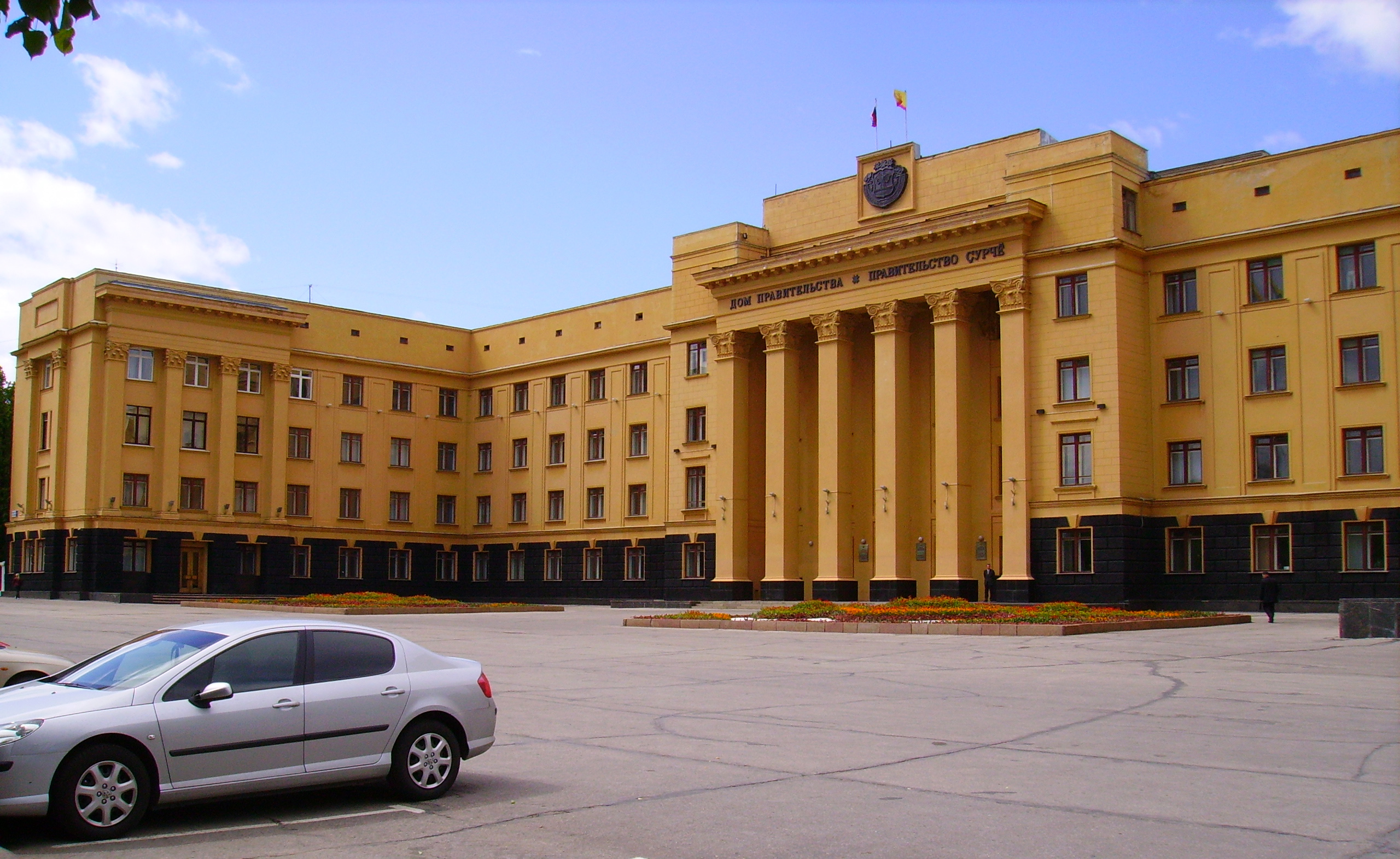 Government House of Chuvash Republic